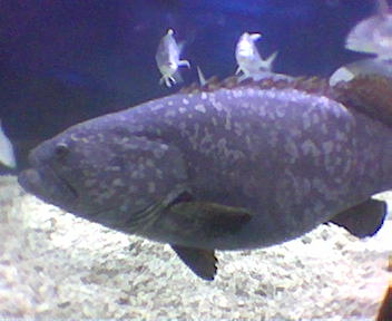 Epinephelus lanceolatus in a tank at the Manila Ocean Park in the Philippines, taken early 2008.